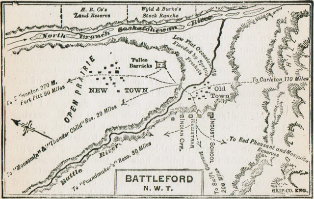 Map of Battleford in 1885 from page 106 of the book: The history of the North-West Rebellion of 1885: Comprising a full and impartial account of the origin and progress of the war, of the various engagements with the Indians and half-breeds, of the heroic deeds performed by officers and men, and of touching scenes in the field, the camp, and the cabin: Including a history of the Indian tribes of north-western Canada, their numbers, modes of living, habits, customs, religious rites and ceremonies: With thrilling narratives of captures, imprisonment, massacres, and hair-breadth escapes of white settlers, etc.. Toronto: A.H. Hovey & Co, 1885.